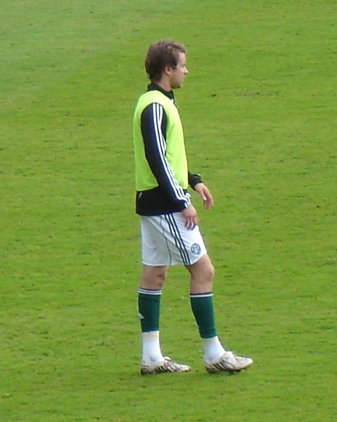 Kári Árnason warming up before a match.